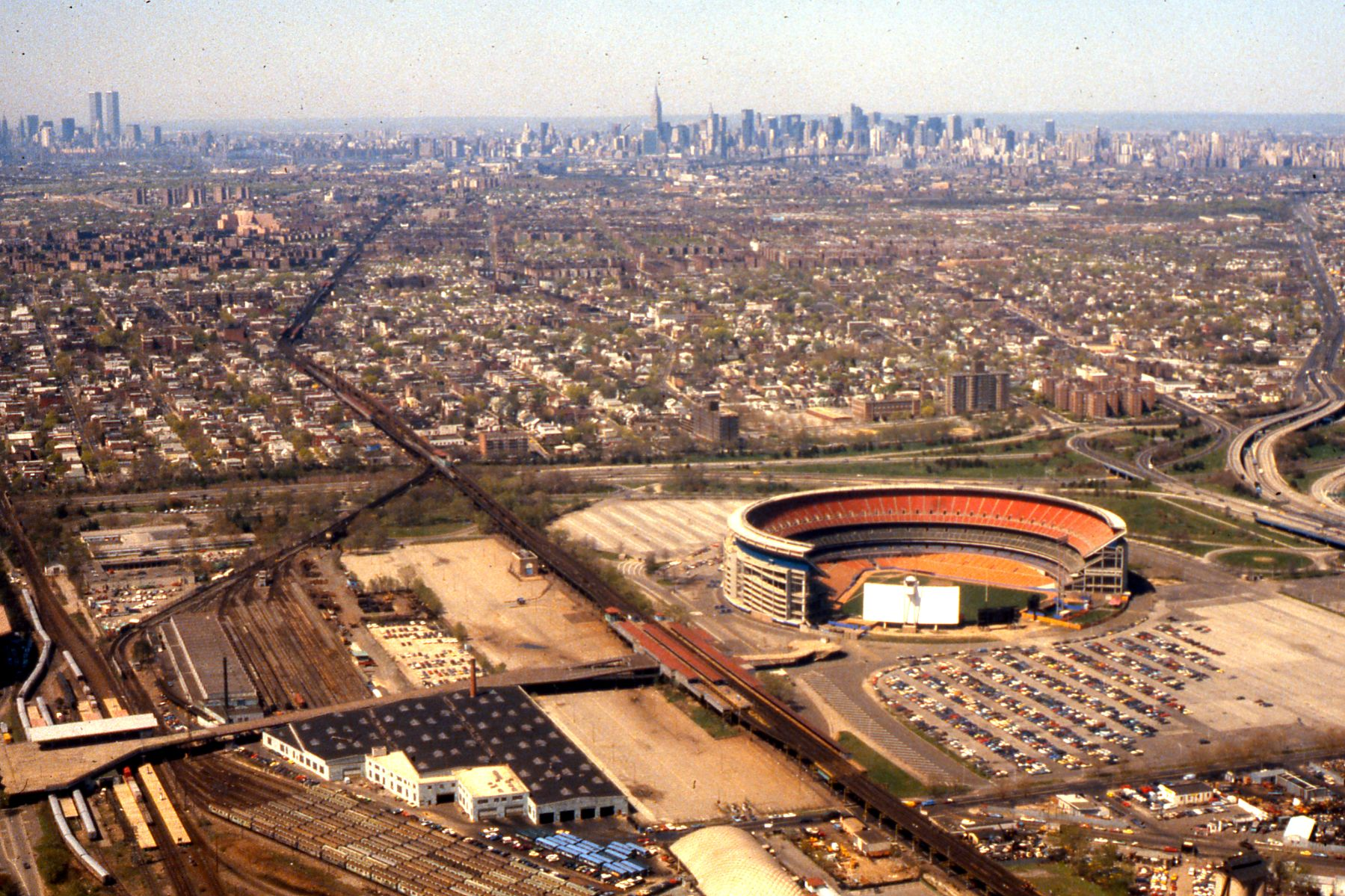 Aerial view of Shea Stadium and vicinity with Manhattan in the background 1981.jpg Other information Photo by George Garrigues.